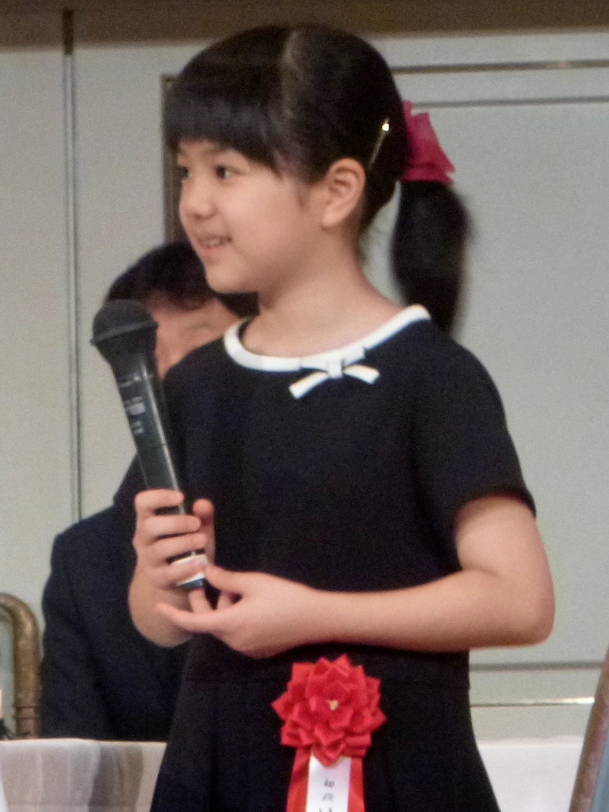 Japanese go player Sumire Nakamura greeting to audience before the exhibition match of World Go Festival in Takaraduka, Hyogo, Japan.